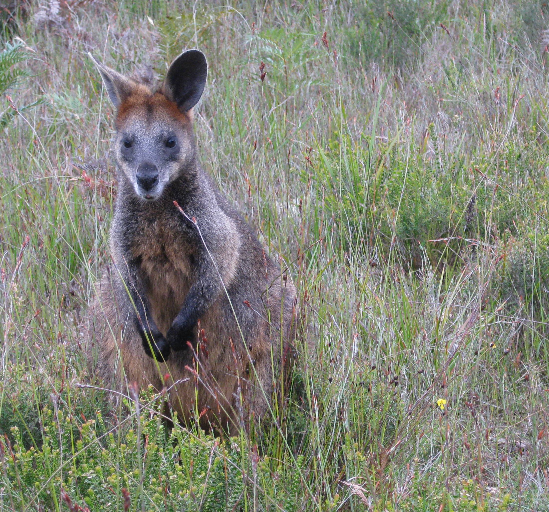 Swamp wallaby (Wallabia bicolor) at Wilsons Promotontory, Australia